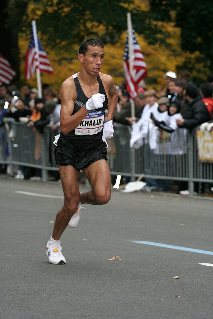 Khalid Khannouchi in 2007 New York City Marathon